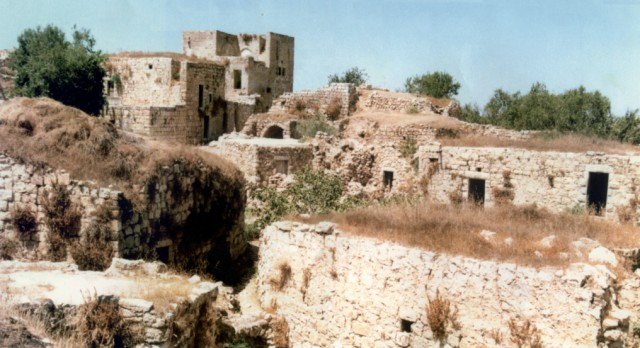 Beit 'Anan in the past